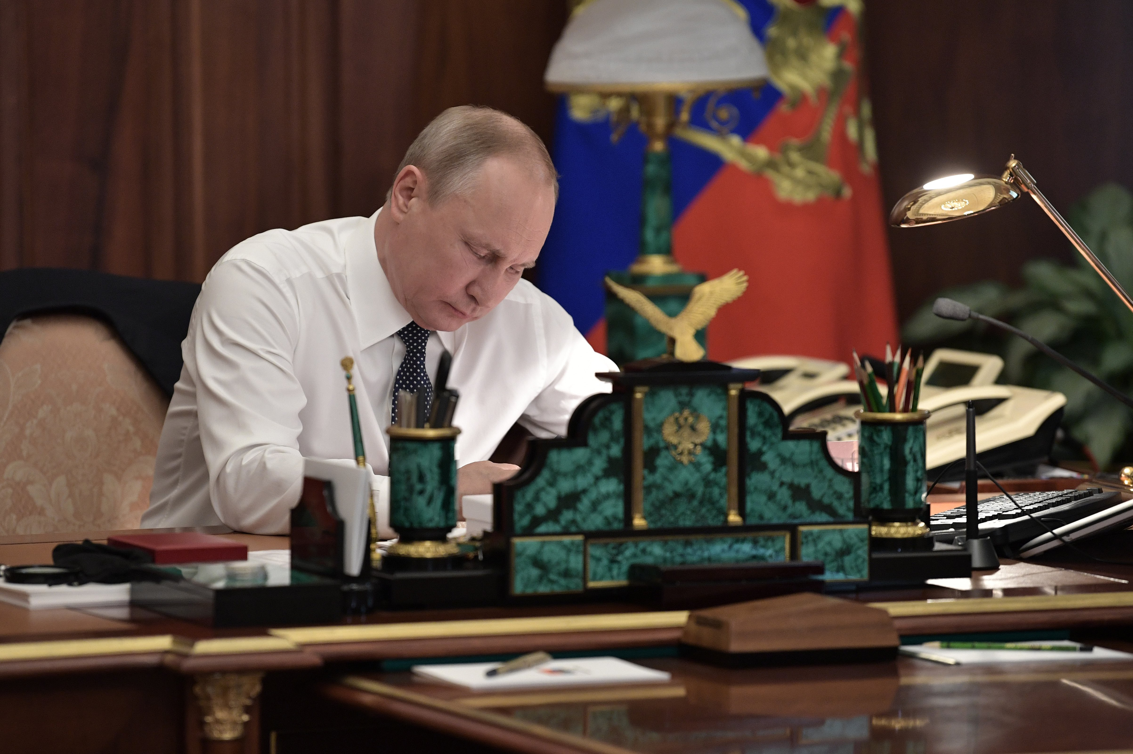 Vladimir Putin has been sworn in as President of Russia (2018-05-07)